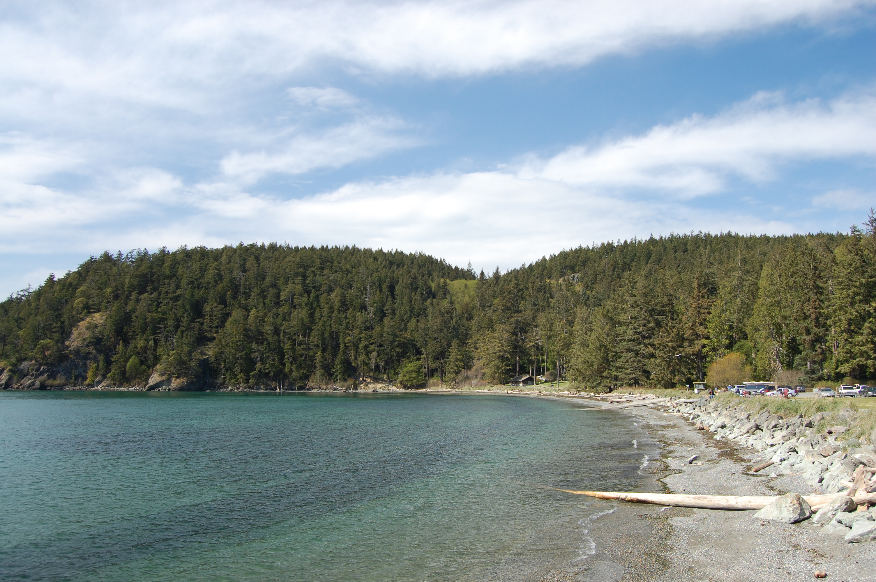 Looking northwest along the rocky beach at Bowman Bay in Deception Pass State Park.